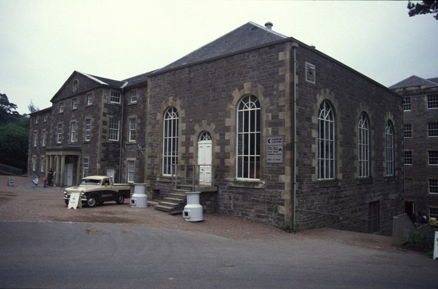 New Lanark engine house The building with tall windows is the Mill No. 3 engine house and contains a re-erected Petrie horizontal four cylinder triple expansion steam engine. This can be turned by an electric motor. The two grey items by the steps are the castings for the air pump barrels and hot wells, stood upside down.